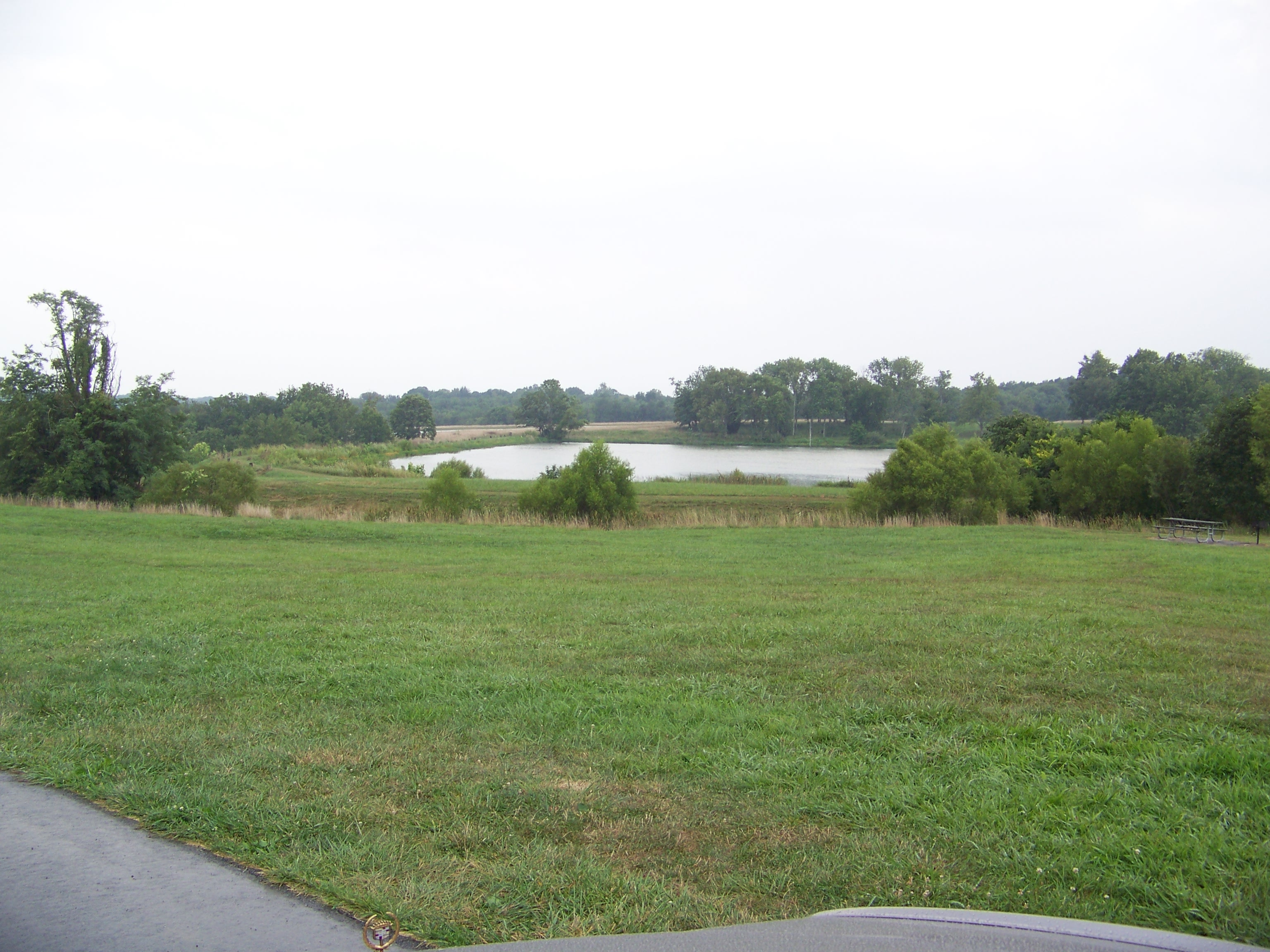 PUBLIC PARK PIC I TOOK